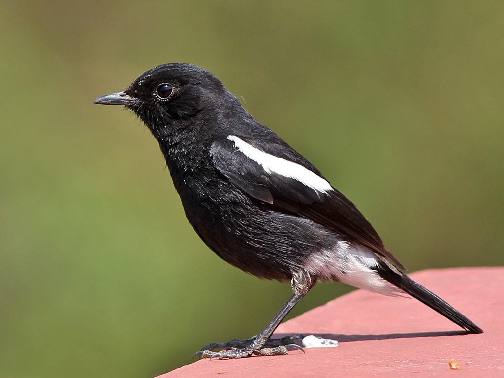 The Pied Bushchat is a small passerine bird found ranging from West and Central Asia to South and Southeast Asia. It is a familiar bird of countryside and open scrub or grassland where it is found perched at the top of short thorn trees or other shrubs, looking out for insect prey.